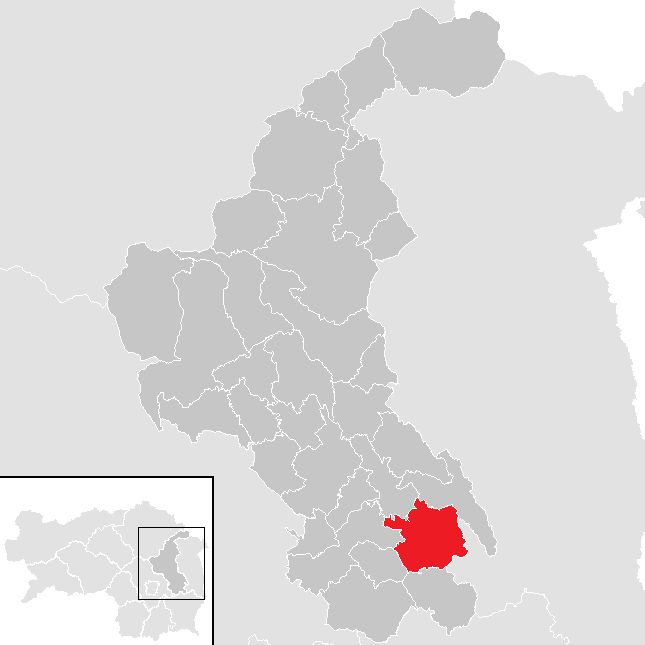 district Weiz